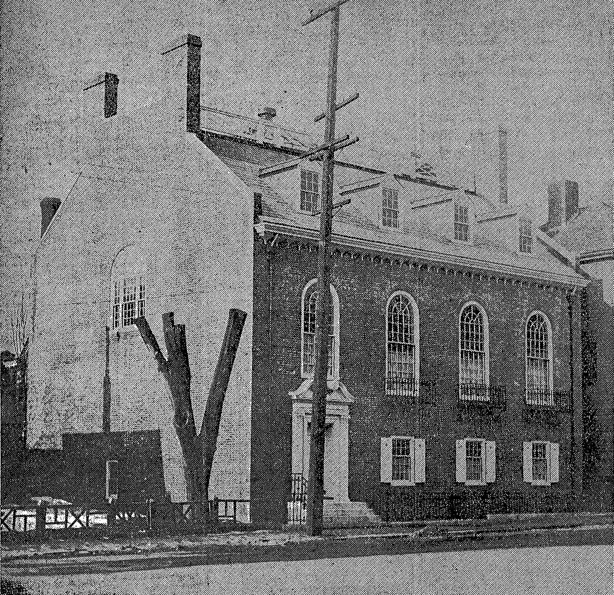 S.K. Clubhouse, circa 1916